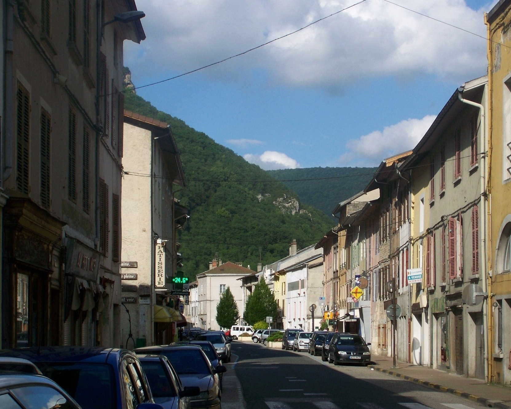 Saint-Rambert-en-Bugey, a little commune of Ain, France.